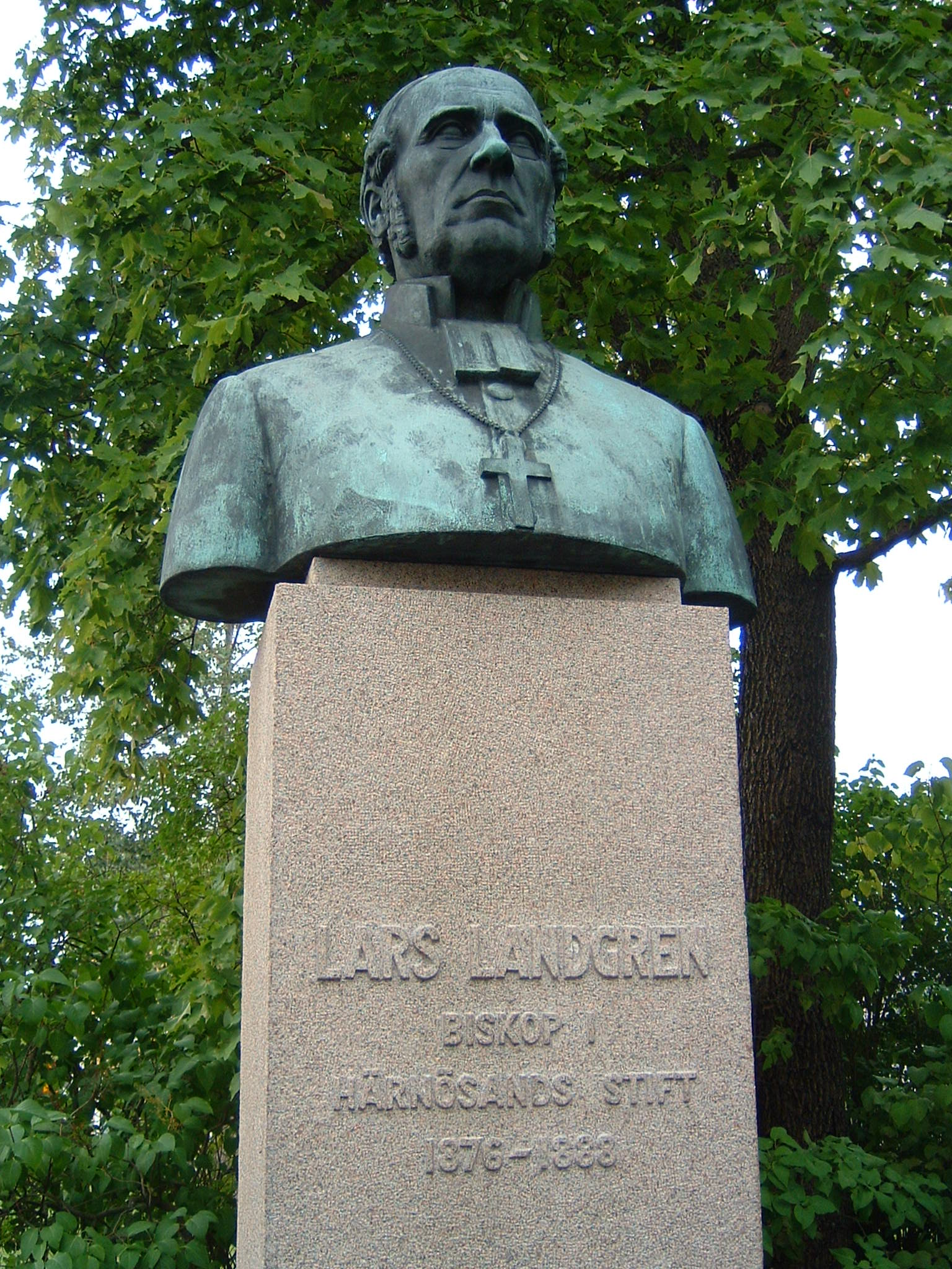 Bust (sculpture) depicting Lars Landgren (1810-1888), a Swedish bishop, placed in central Härnösand, Sweden